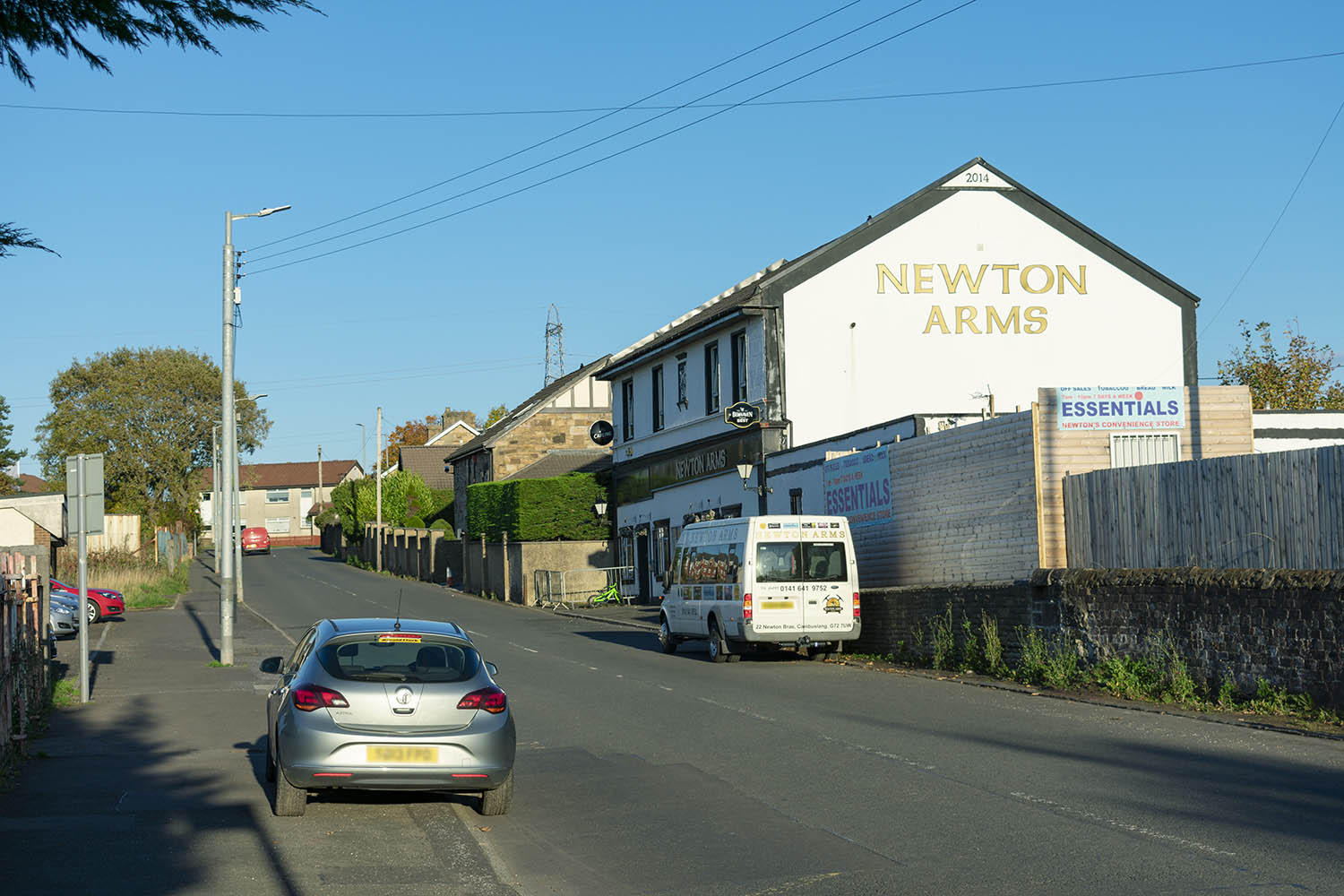 The Newton Arms as it appears in late 2018; along with the 'Essentials' shop attached.